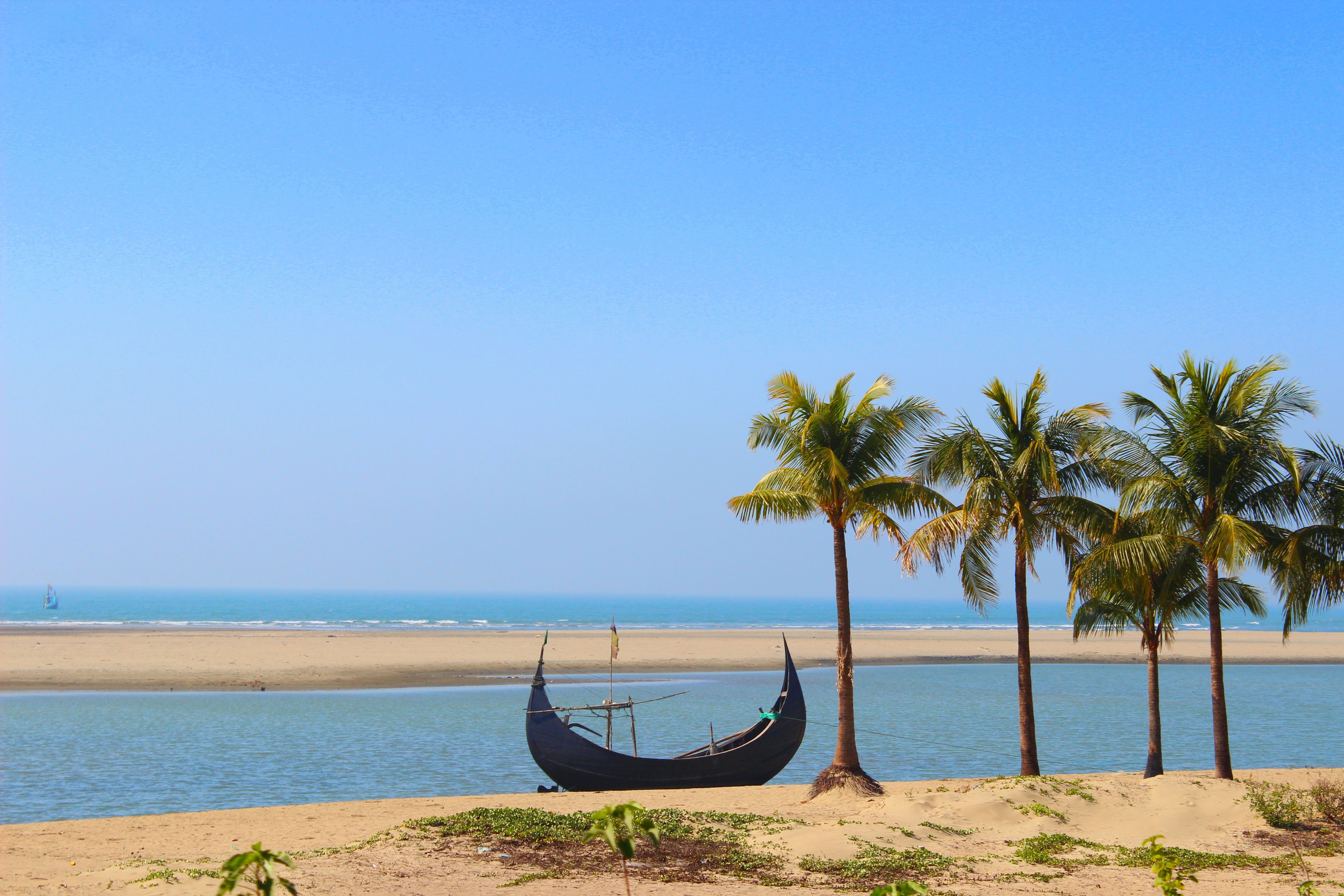 Inani Beach, near of Cox's bazar, Bangladesh.